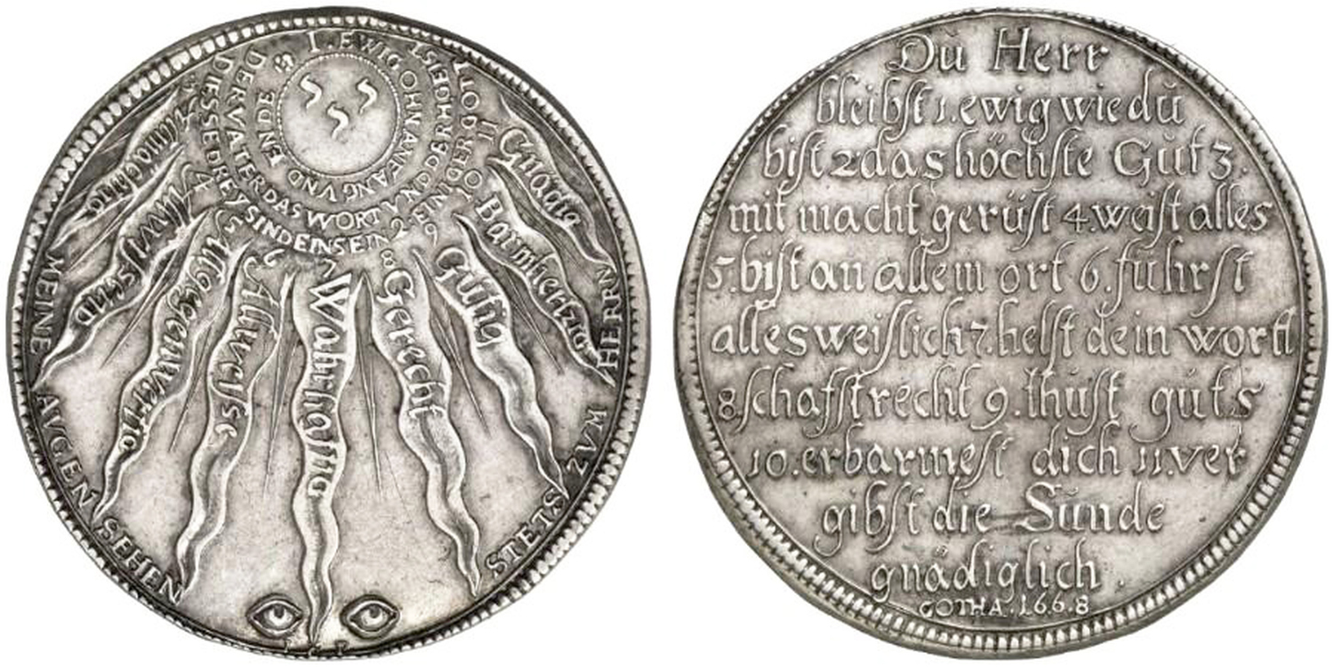 Katechismustaler